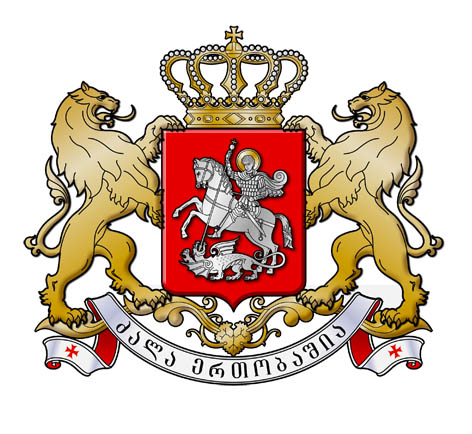 coat of arms of Georgia.